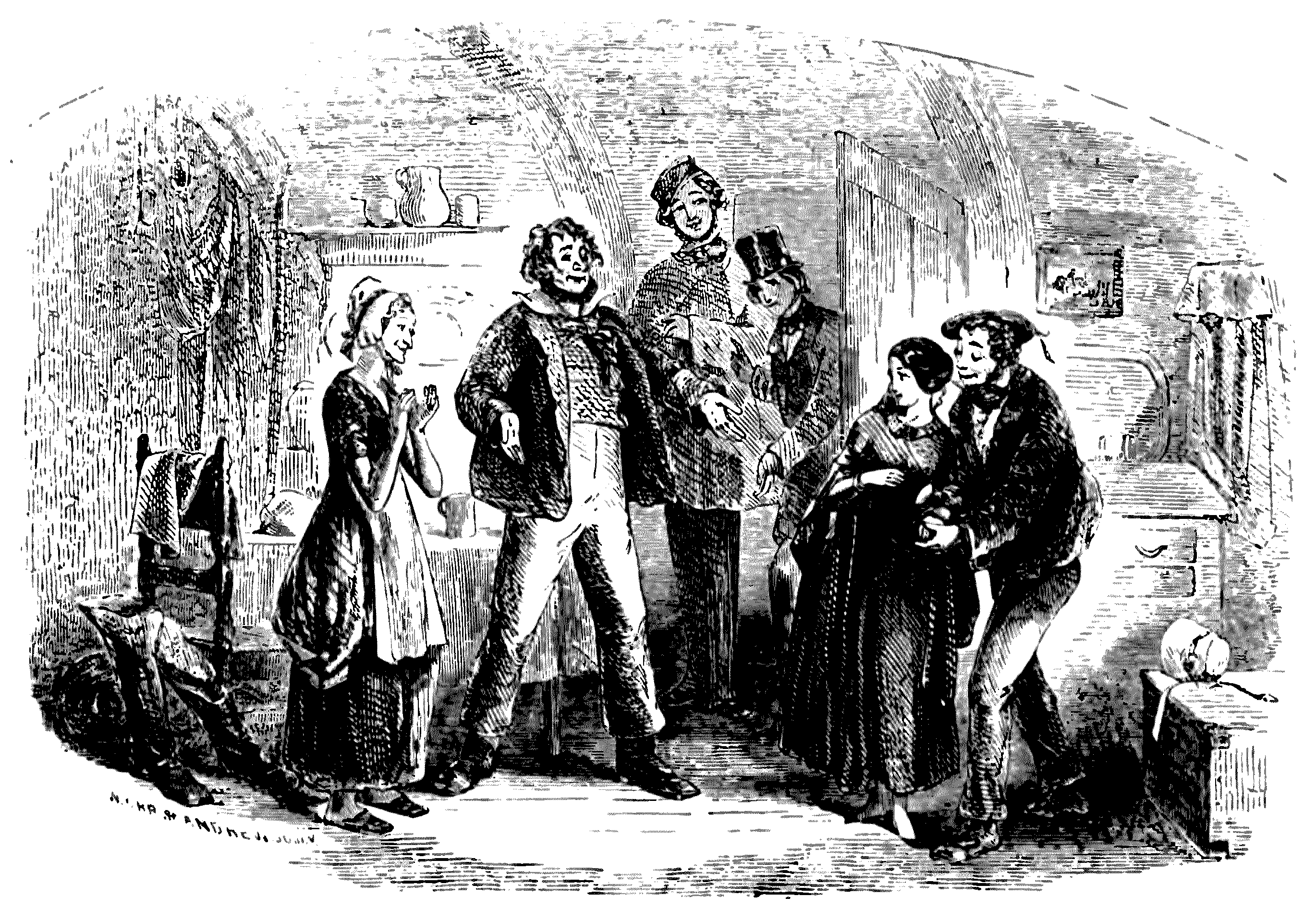 WE ARRIVE UNEXPECTEDLY AT MR. PEGGOTTY's FIRESIDE